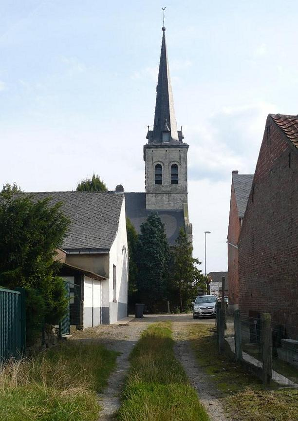 Church of Wakkerzeel in Flanders